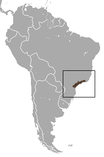 Southern Muriqui (Brachyteles arachnoides) range